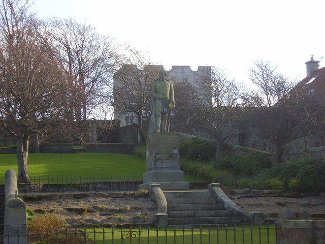 Prestonpans, East Lothian - Thomas Alexander C.B. Memorial statue to a great surgeon who did much to improve hospital sanitation during the Crimean War. He was a friend of nurse Florence Nightingale. Born In Prestonpans, he died in 1860.